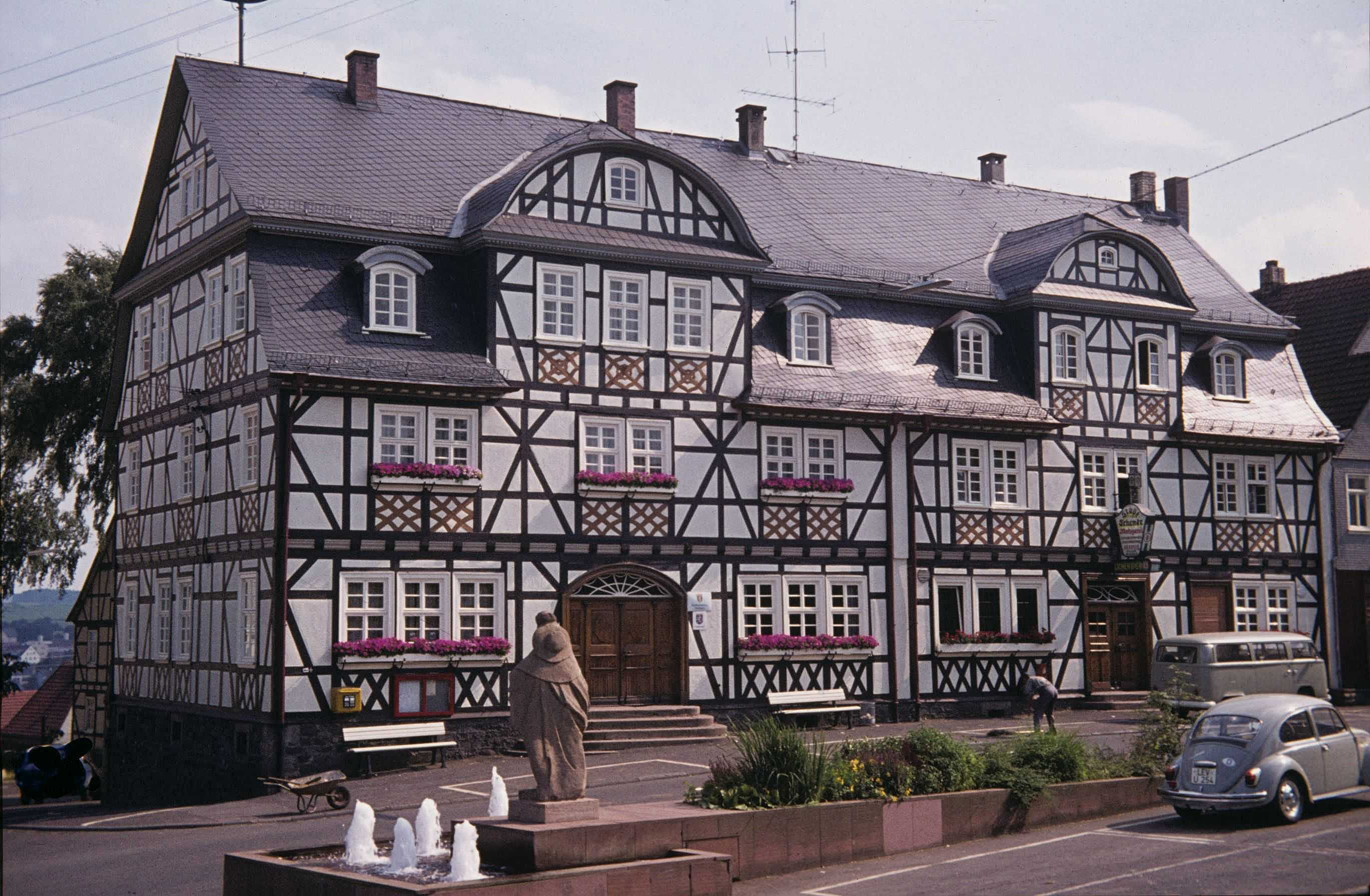 The half-timbered town hall of Herbstein, Vogelsbergkreis, Hesse, Germany